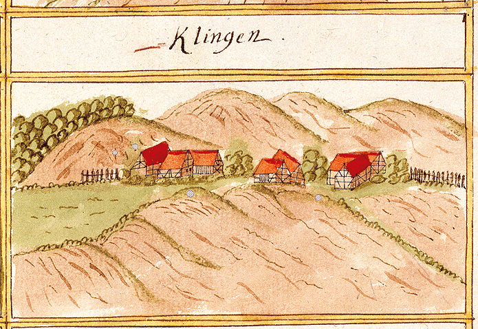 View of Klingen, Schmidhausen, Beilstein, from the forest register books created by Andreas Kieser